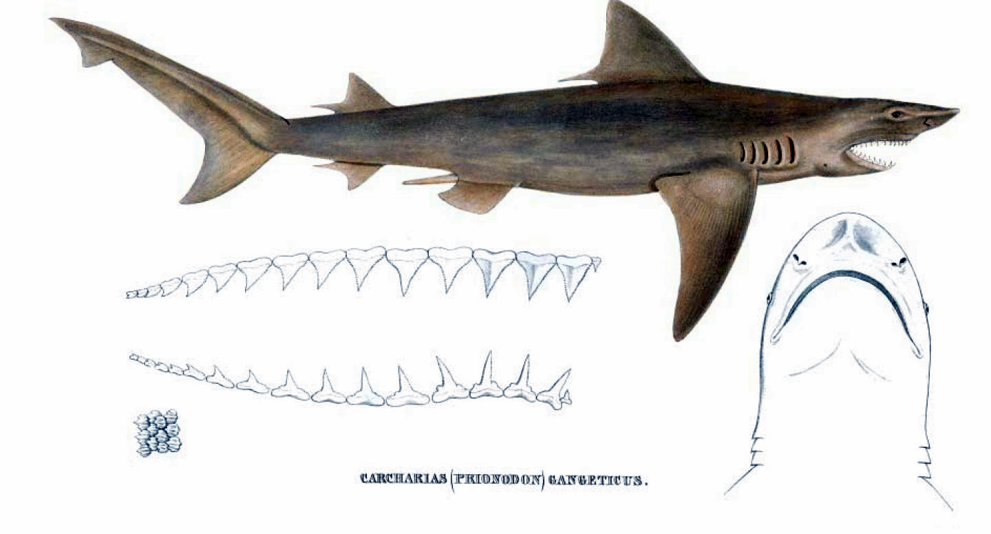 Carcharias gangeticus (=Glyphis gangeticus)